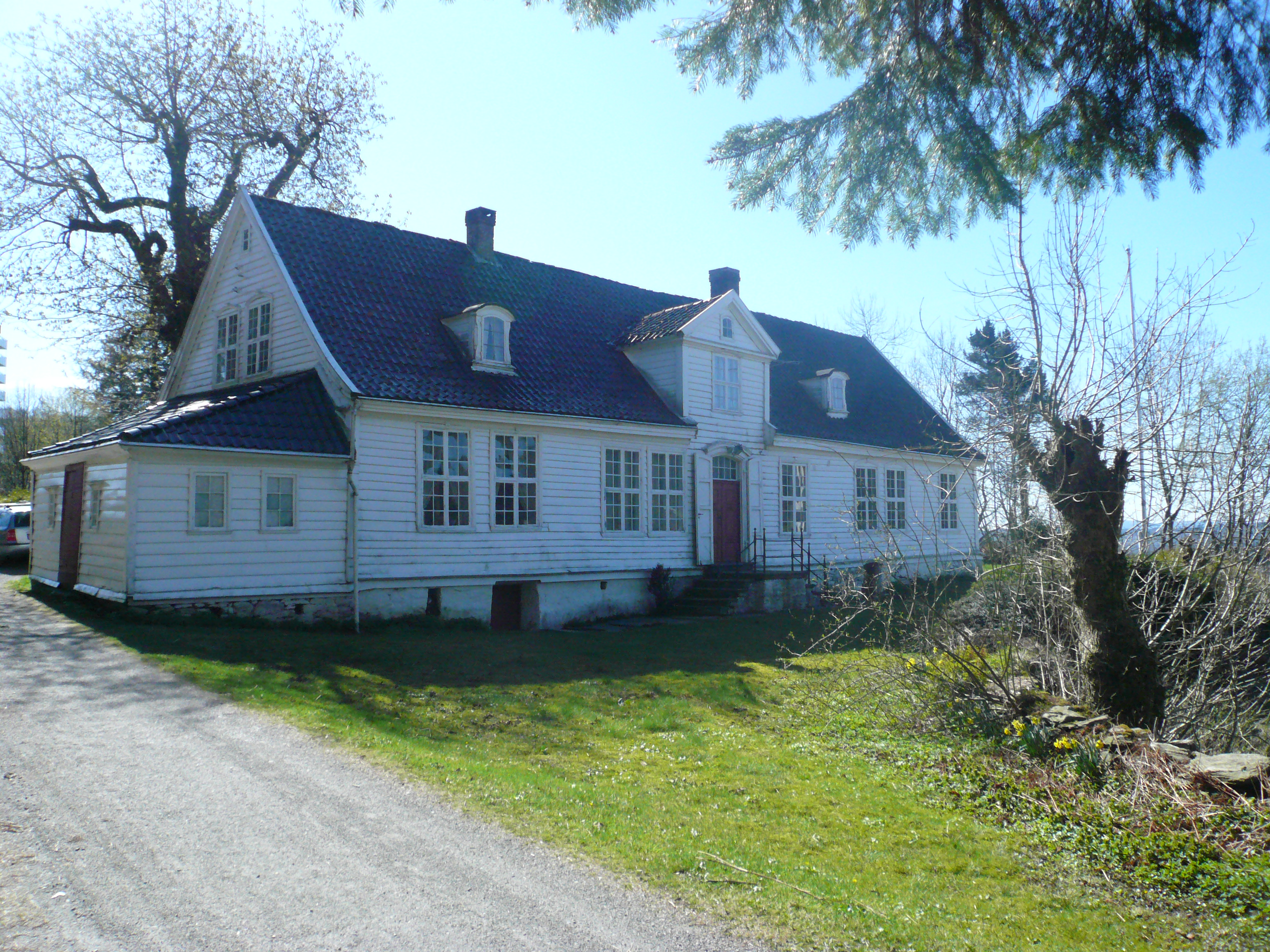 Slettebakken hovedgård